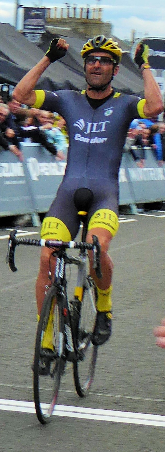 Kristian House celebrates winning Round 4 of the Pearl Izumi Tour Series in Motherwell, on 26 May 2015